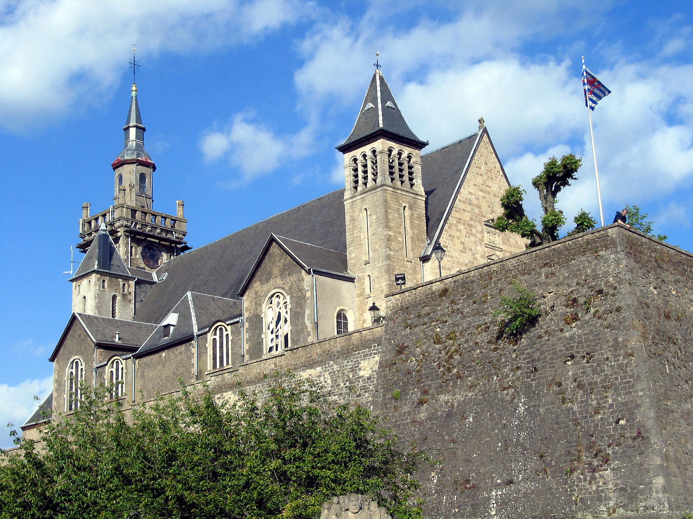 Arlon (Belgium): St. Donat's church (17th century).